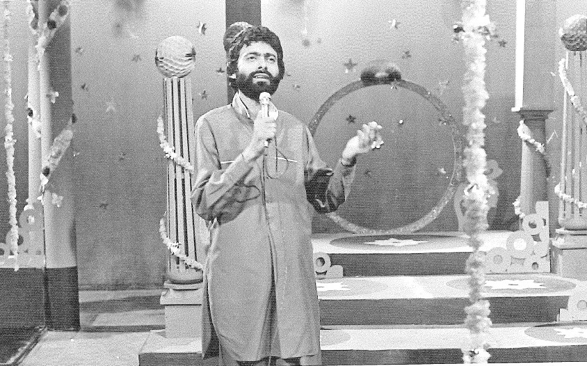 Fazal Malik Akif performing on Pakistan television in the late 1970's